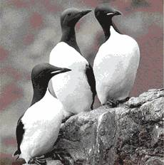 Thick-billed & Common Murre from USGS Caption: Common & Thick-billed Murres Source; U.S. Geological Survey, Alaska Science Center - Biological Science Office, Seabird Tissue Archival and Monitoring Project